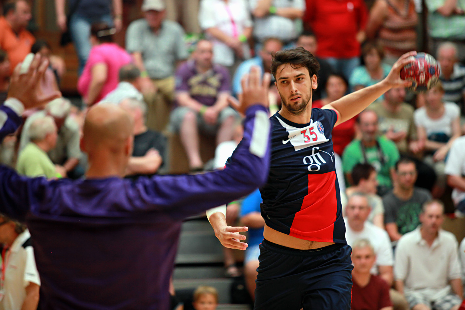 Marko Kopljar, on August 17th, 2012 in Ehingen (Germany), during the Sparkassen Cup (formerly known as Schlecker Cup).